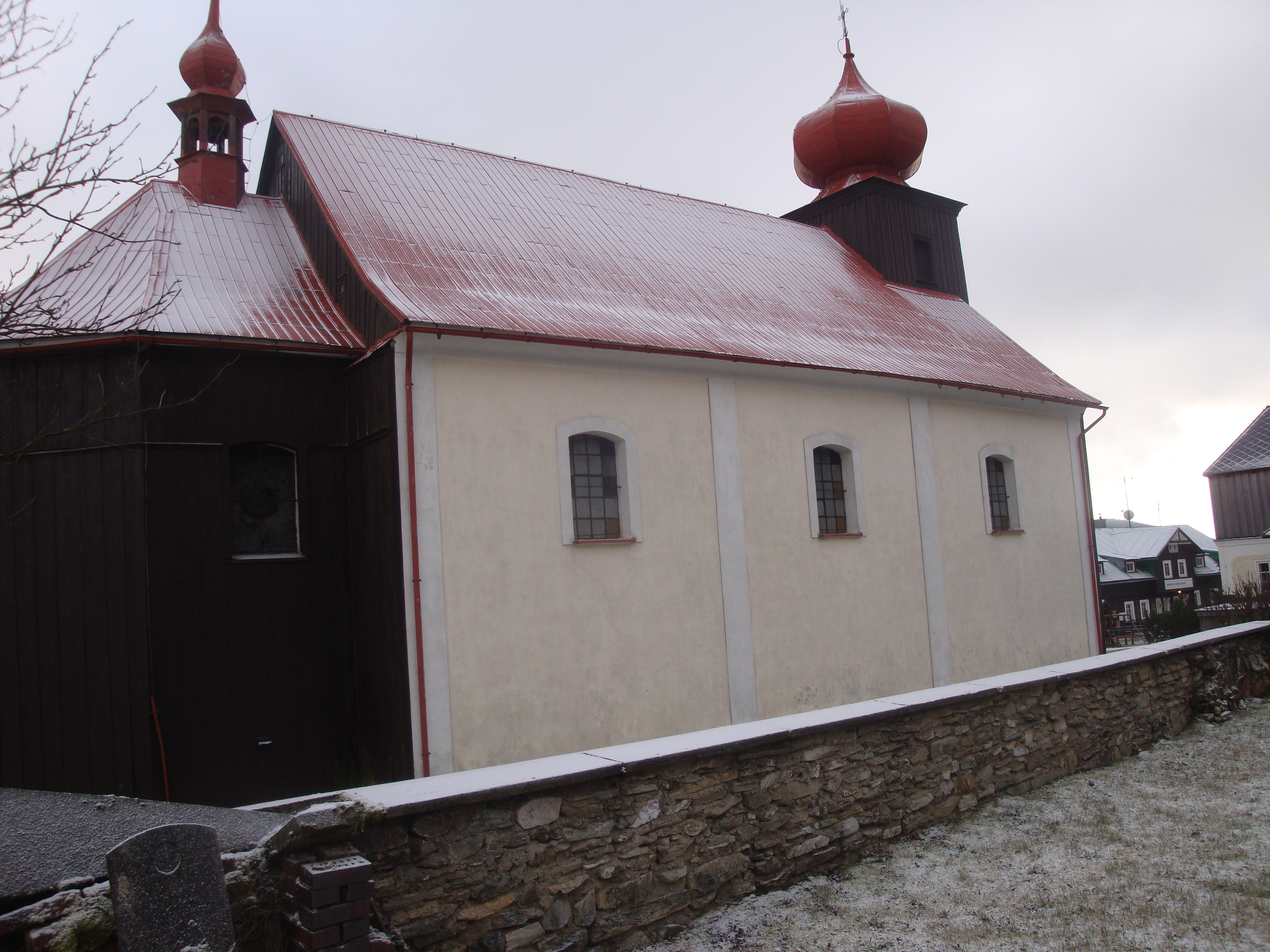 Malá Úpa - village in Czech Republic.